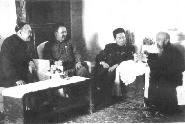 The first sentimental group sent by the central government of PRC to Xinjiang. From left to right : Shen Junru (Chinese lawyer, political figure and the first president of the Supreme People's Court of China in the People's Republic of China), Sa Kongle (Journalist), Wang Feng and BURHAN Xahidi (Baoerhan 鮑爾漢) (1896-1989; notable of Xinjiang who became governor of this province until 1955